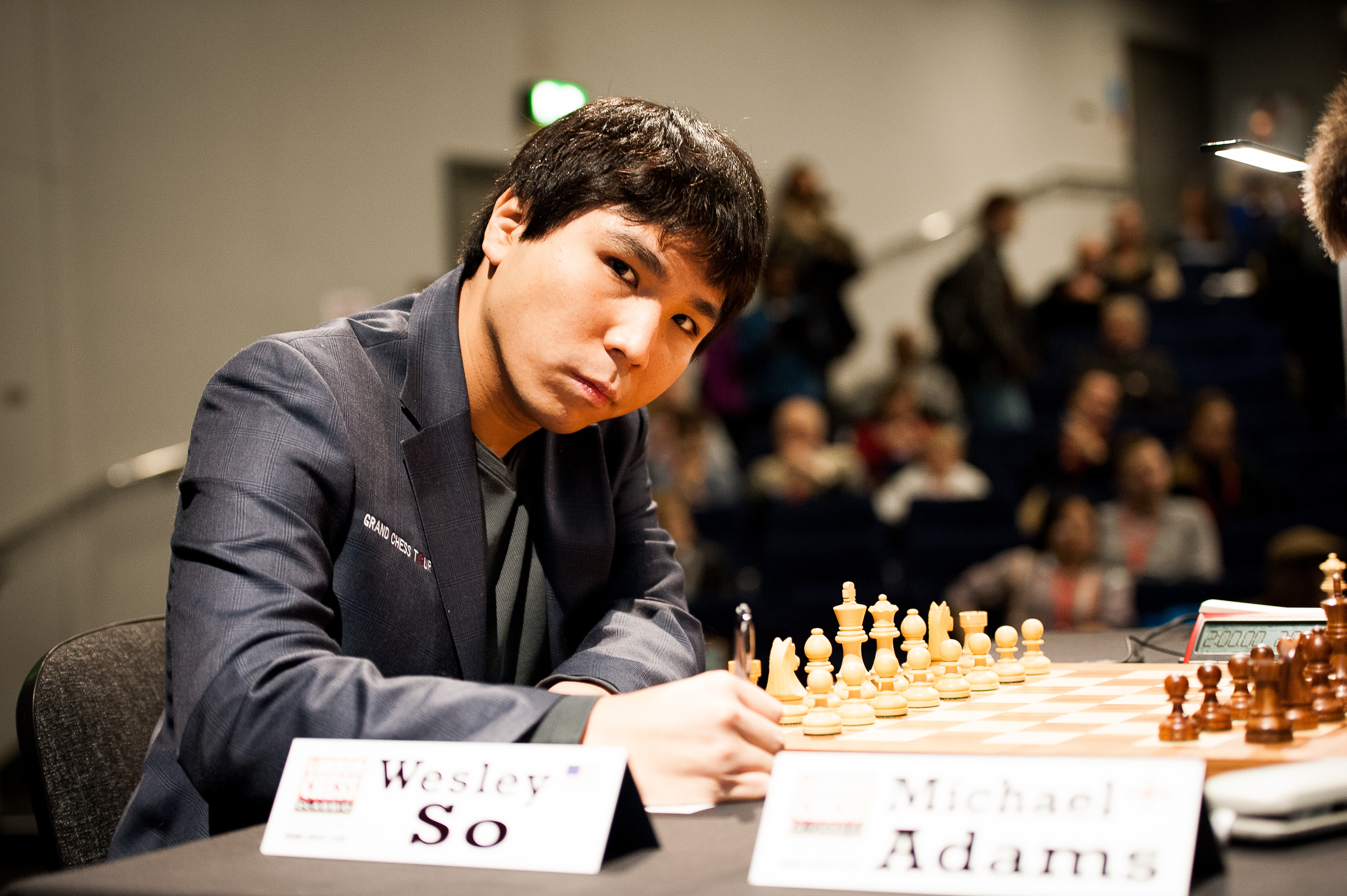 GM Wesley So, World Nr. 5